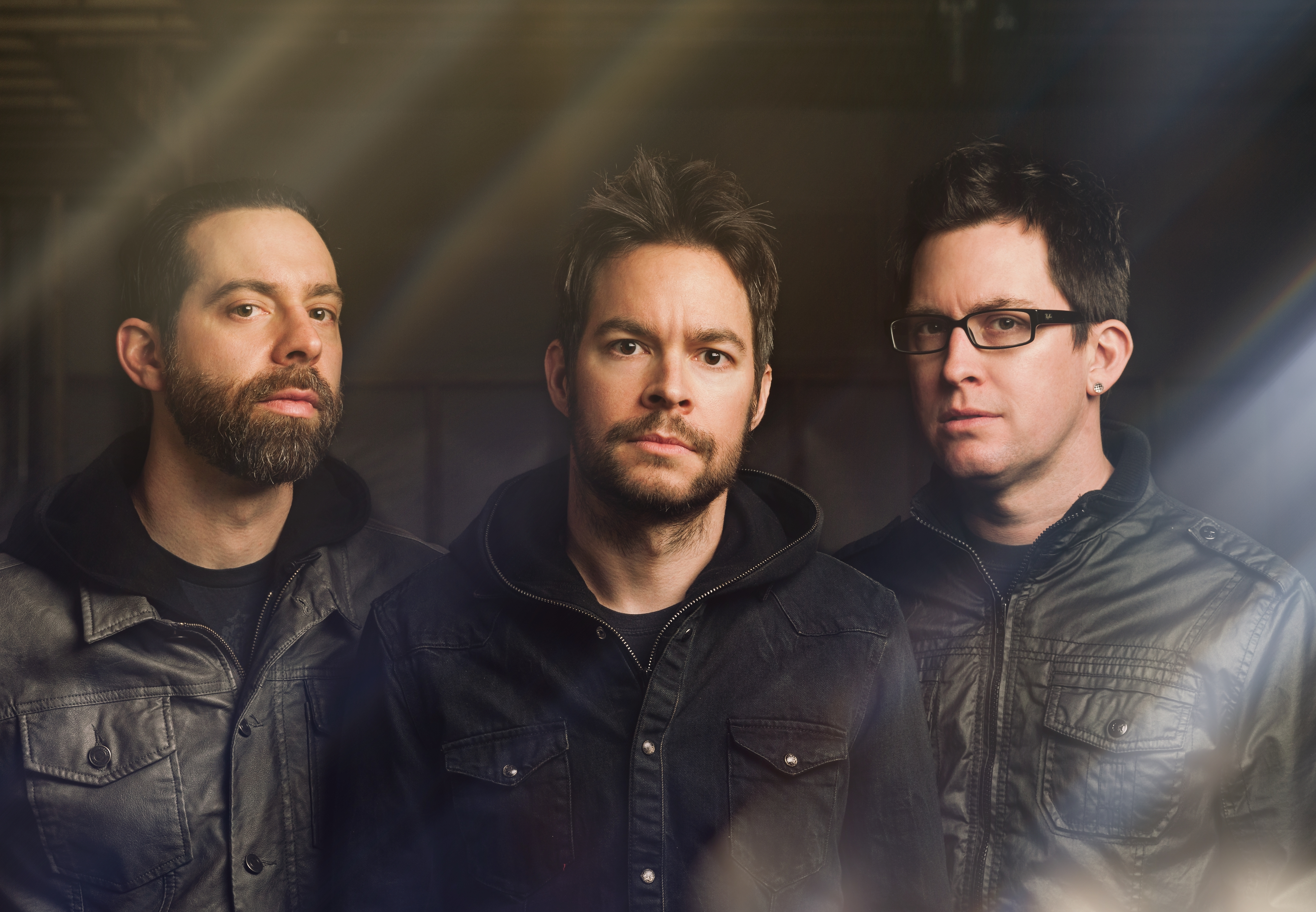 Profile image of musical group Chevelle